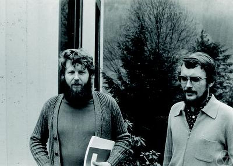 Eberhard Freitag (left), Eckart Vieweg, Oberwolfach 1977